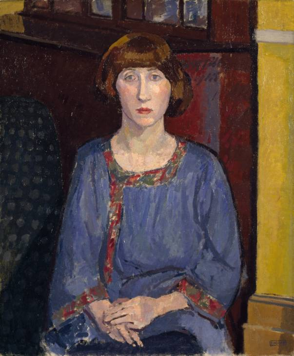 The artist's wife, 1913